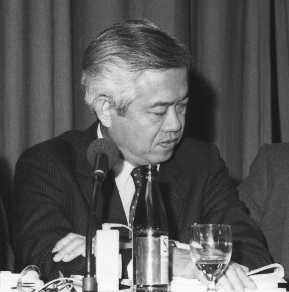 Philippine Prime Minister Cesar E. Virata, 1983, Davos, Switzerland. During the session “New Dimensions of Leadership for Today’s Complex World” at the European Management Symposium, the predecessor of the World Economic Forum in Davos in January, 1983.